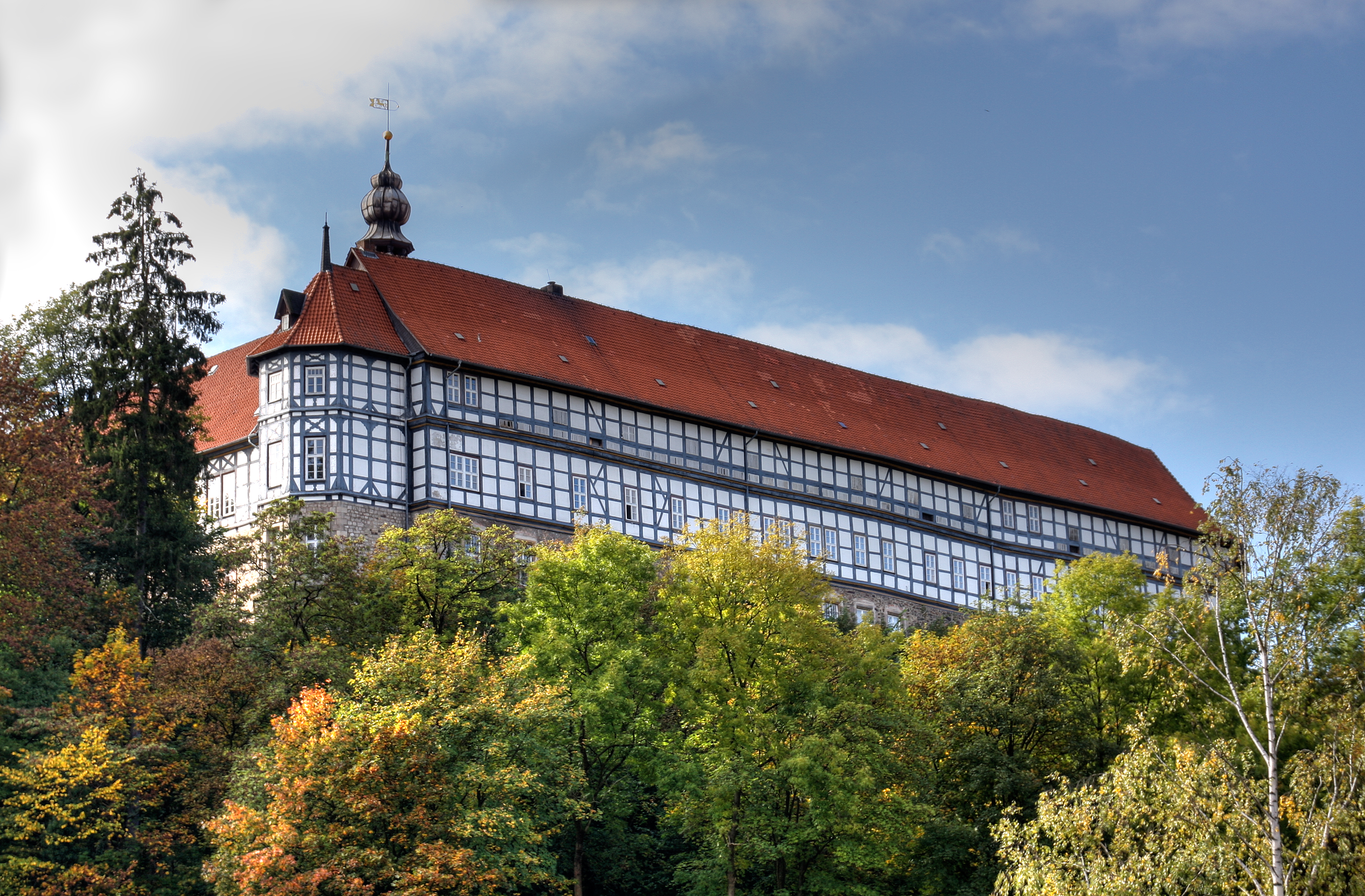 Herzberg Castle in Herzberg am Harz, Lower Saxony, Germany. View from east